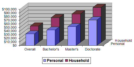 I created the graph myself using 2006 US Census Bureau data taken from here (household income data) and here (personal income data).